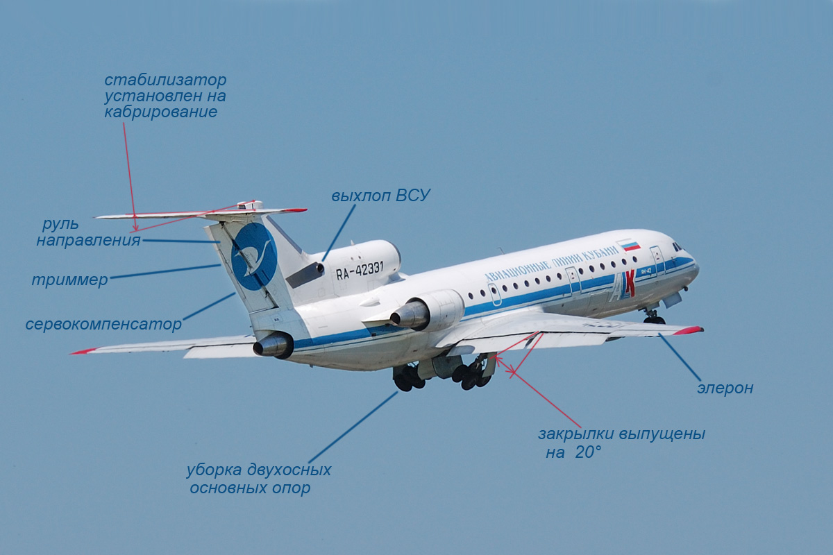 Takeoff Yakovlev Yak-42D RA-42331 from Samara Kurumoch airport, Russia.